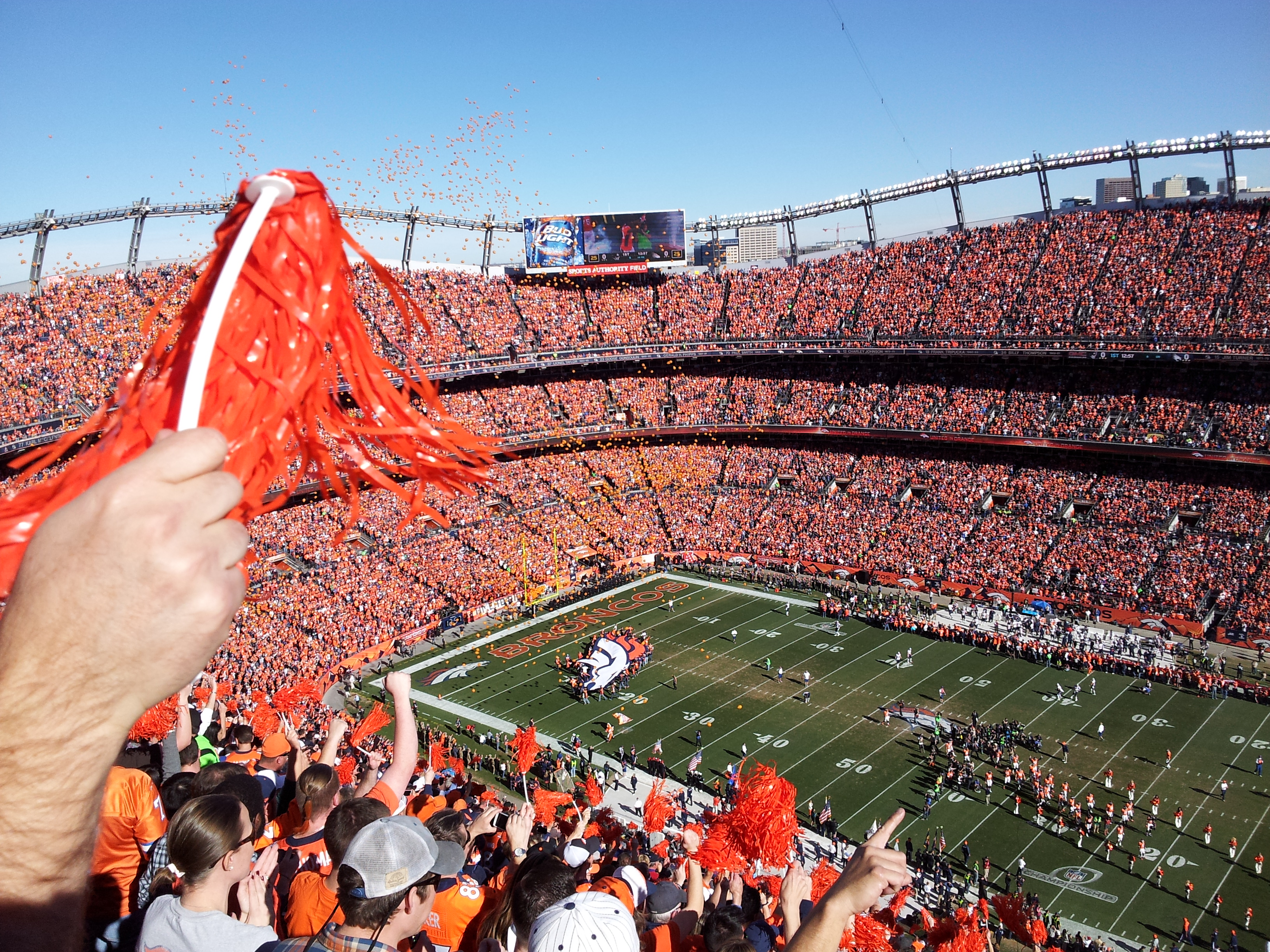 SAF at Mile High AFC Championship game pom-poms